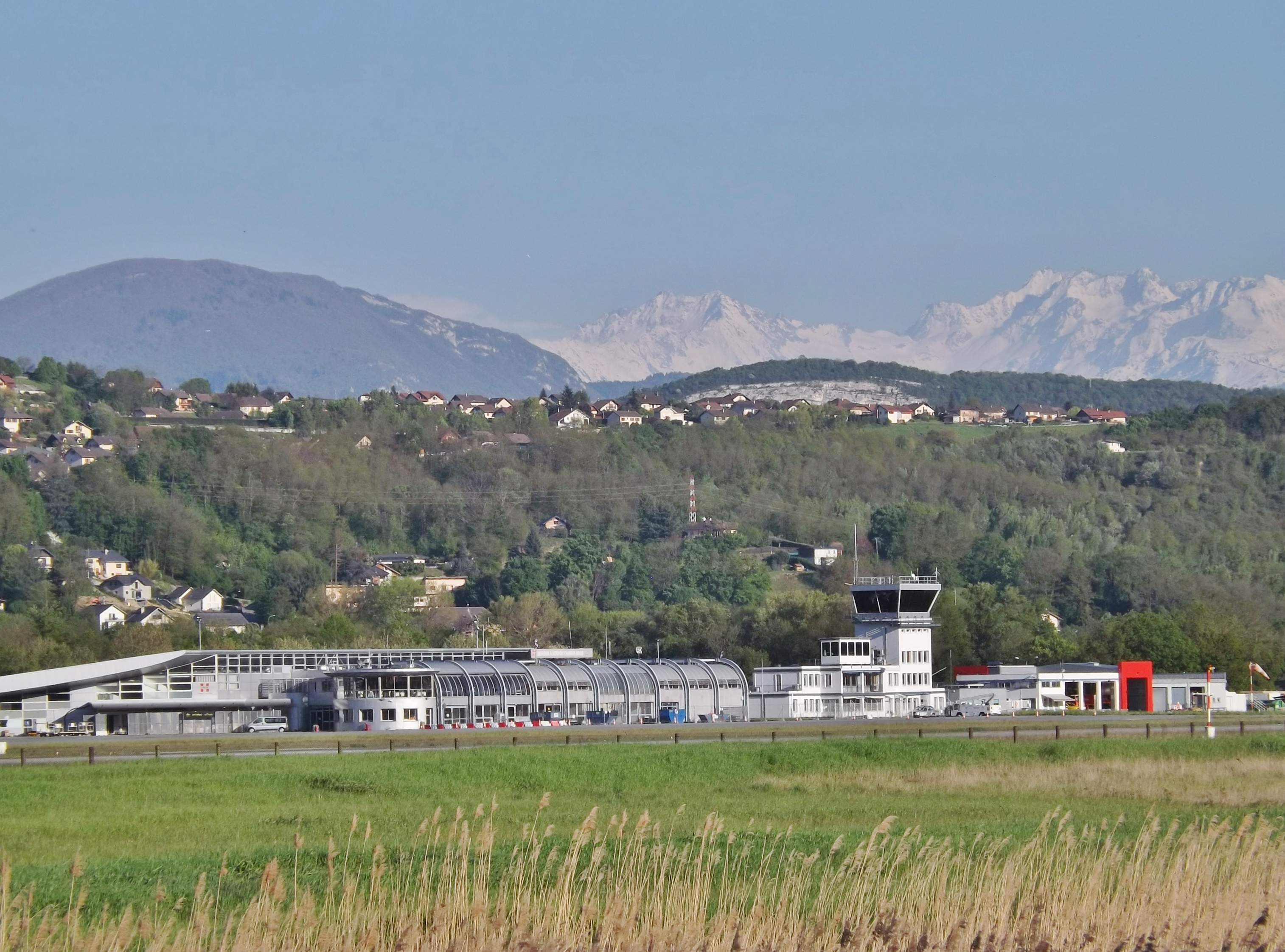 Sight of the Chambéry-Savoie airport terminal and control tower, situated between cities of Chambéry and Aix-les-Bains in Savoie, France.